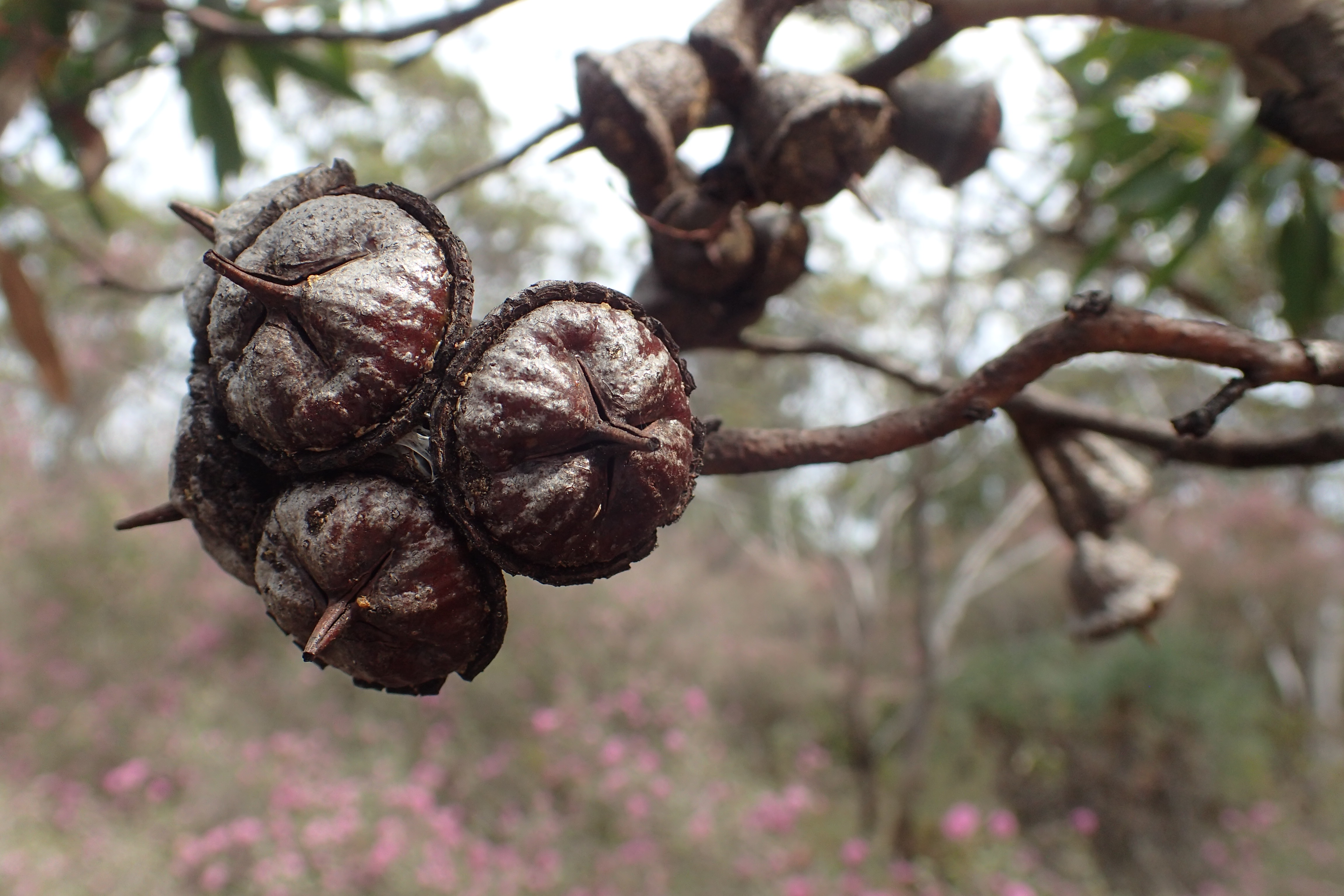 Fruit of Eucalyptus burdettiana in Helms Arboretum, North of Esperance, W.A.